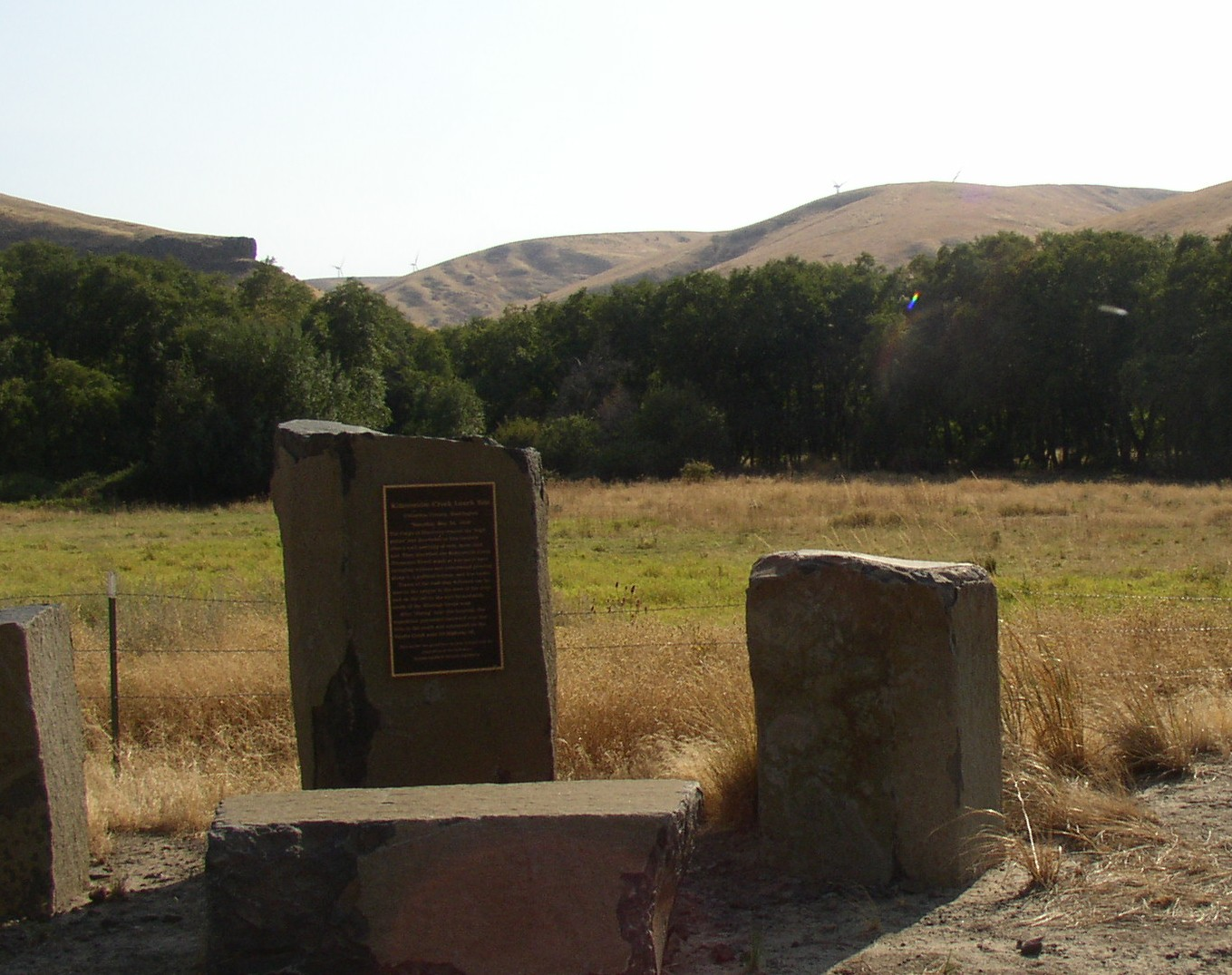 The Lewis and Clark Expedition monument — in the Tucannon River Valley, in Columbia County, far southeastern Washington. Stone monument marks where the Expedition entered the valley, following the Nez Perce Trail from Dayton, on their return east in 1806. Photograph uploaded for article titled ; be patient, the article will be uploaded shortly. Photo taken in September, 2006. Uploaded by photographer. All rights released.